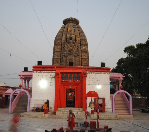 This is Heritage site in INDIA, Bihar(Aurangabad) famous as "Deo Surya Mandir".